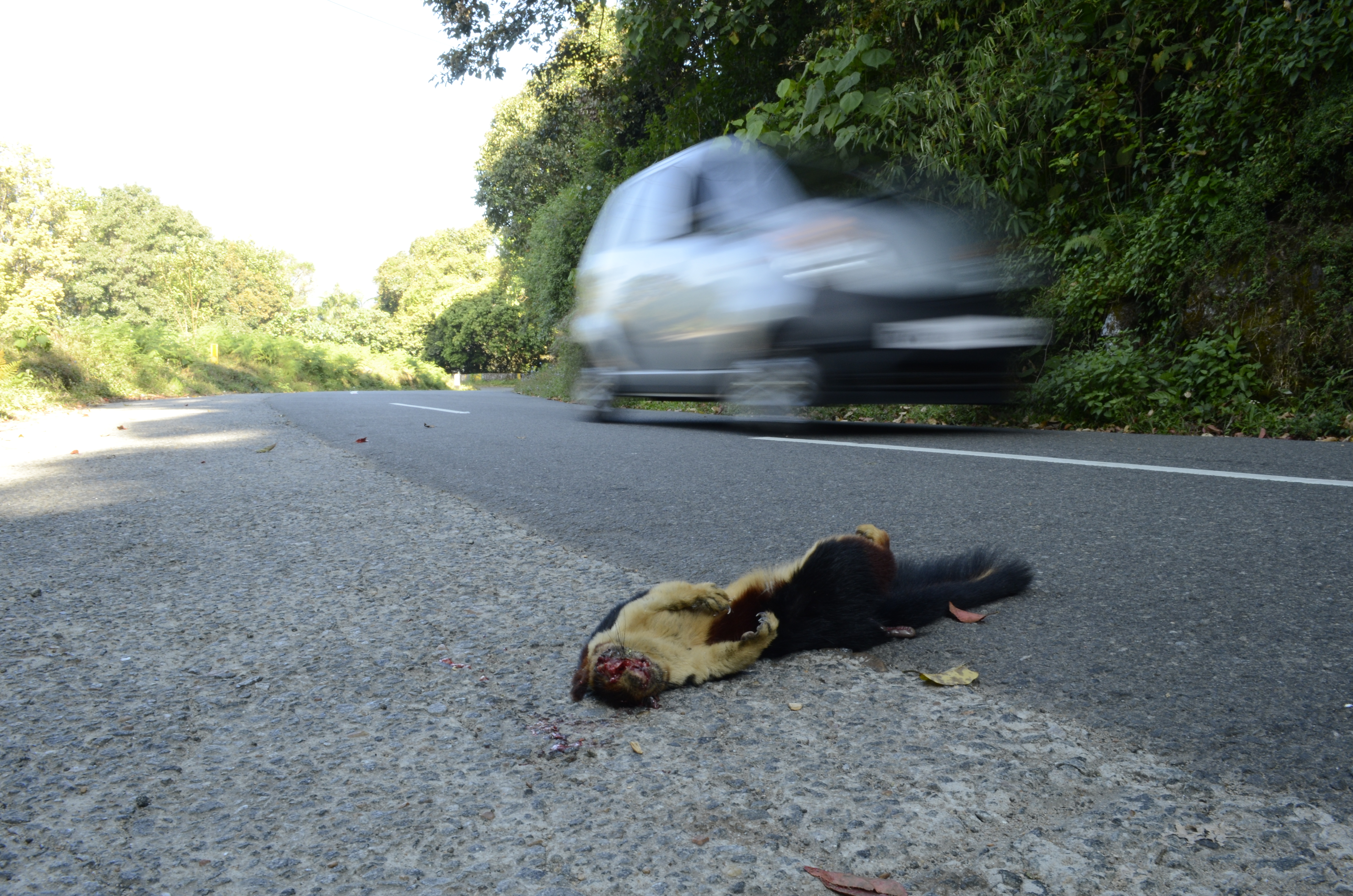 Indian Giant Squirrel_Ratufa indica_malabar giant squirrel roadkill anaimalai hills